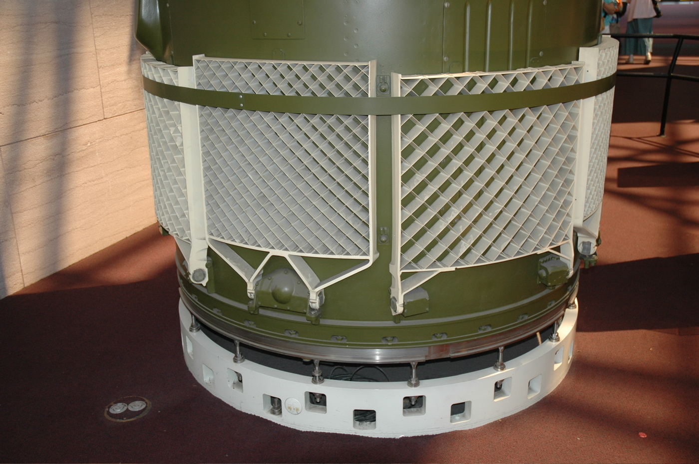 Grid stabilizers of RSD-10 (SS-20) medium-range ballistic missile (displayed at National Air and Space Museum, Washington D.C.)